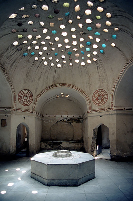 Inside the Hammam 'Azzuz, Rashid, Egypt